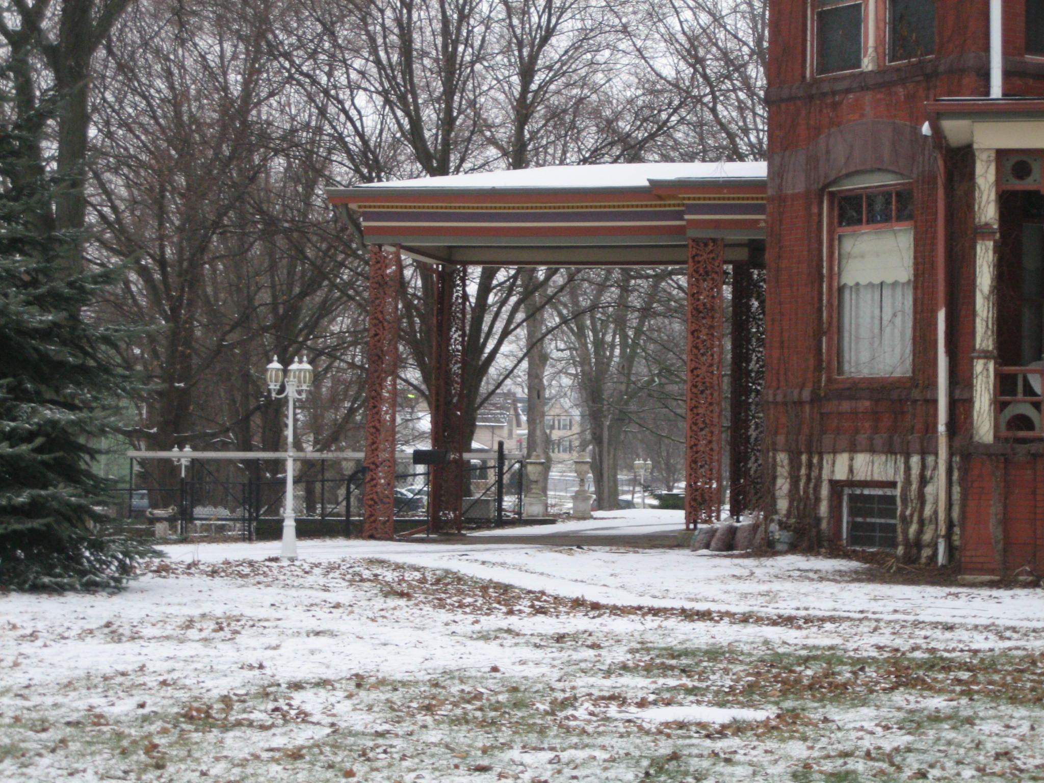 Charles O Boynton House. Sycamore, Illinois, National Register of Historic Places as part of the Sycamore Historic District.